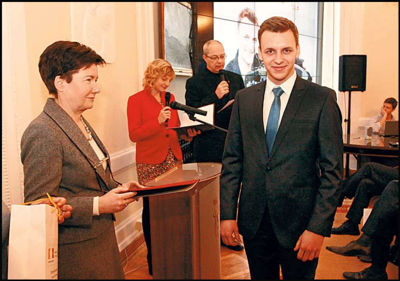 Wręczenie stypendium m.st. Warszawy im. Jana Pawła II przez Prezydent Warszawy Hannę Gronkiewicz - Waltz